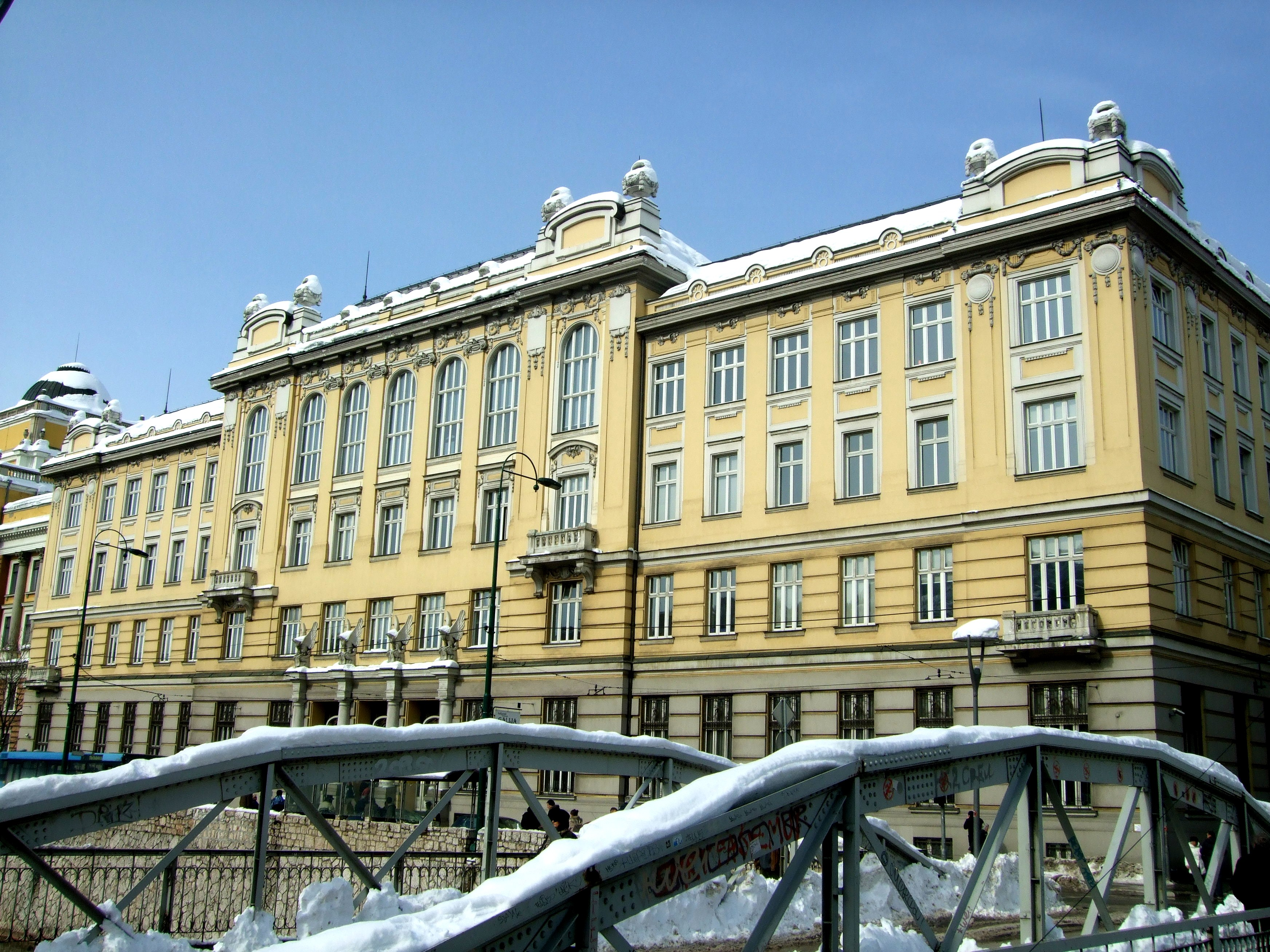 Central Post Office in Sarajevo designed by architect Josip Vancaš